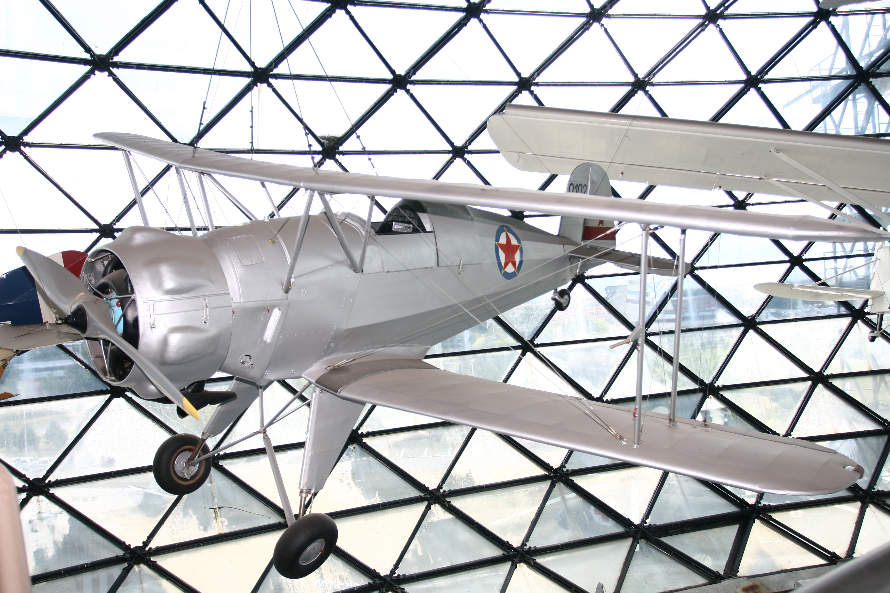 Bucker Jungmeister